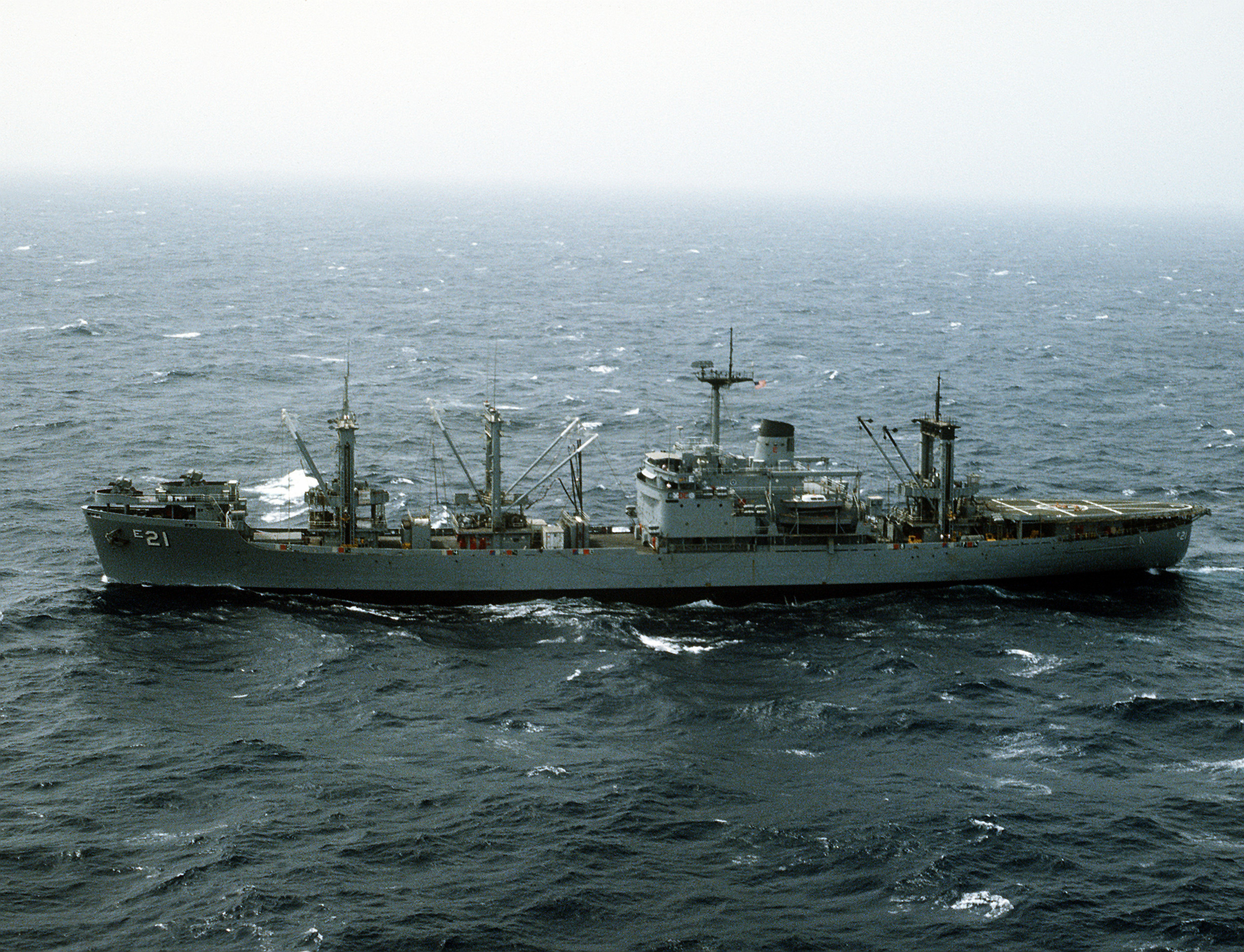 The U.S. Navy ammunition ship USS Suribachi (AE-21) underway on 1 June 1984.